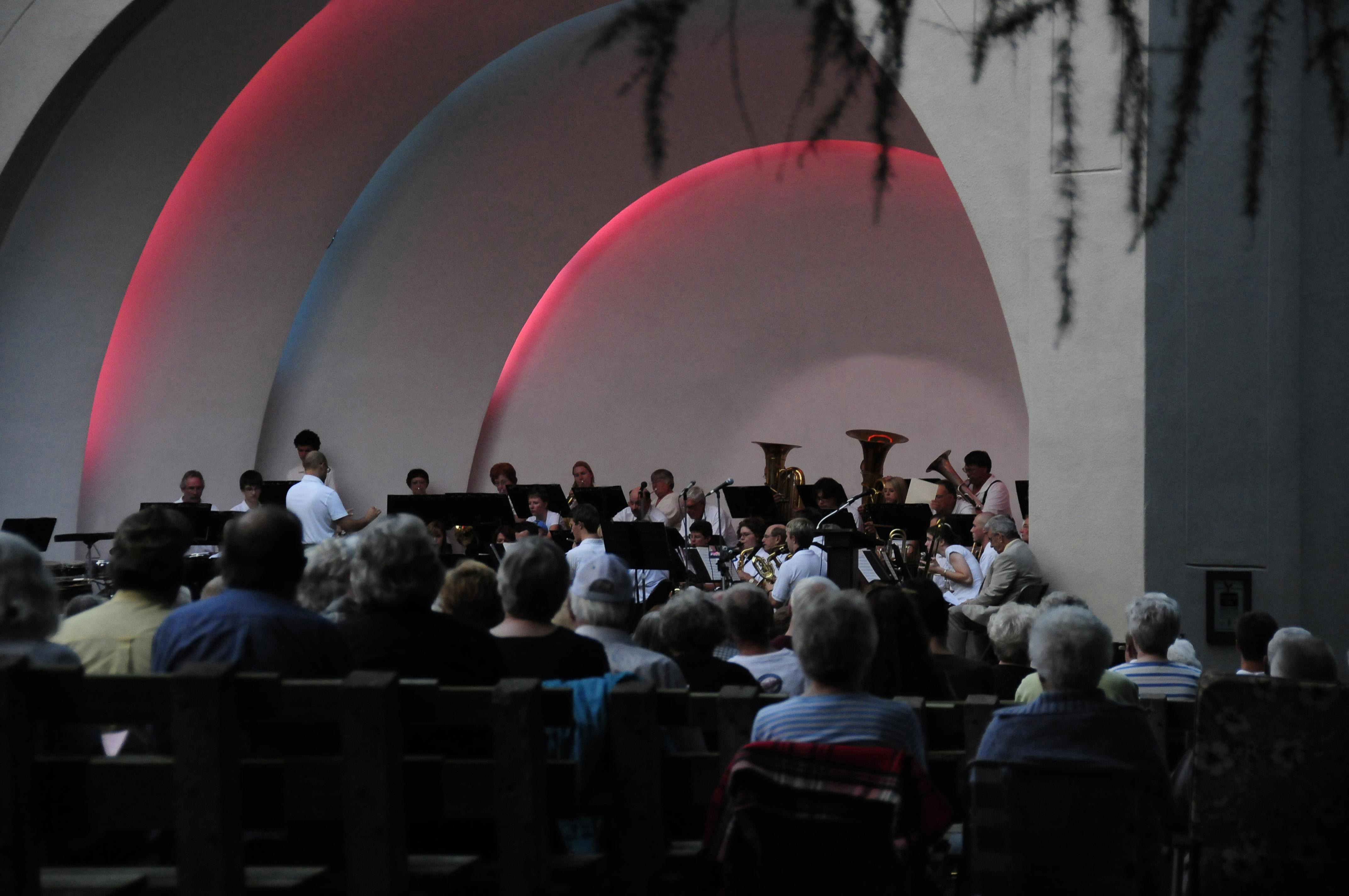 Sarge Boyd Bandshell